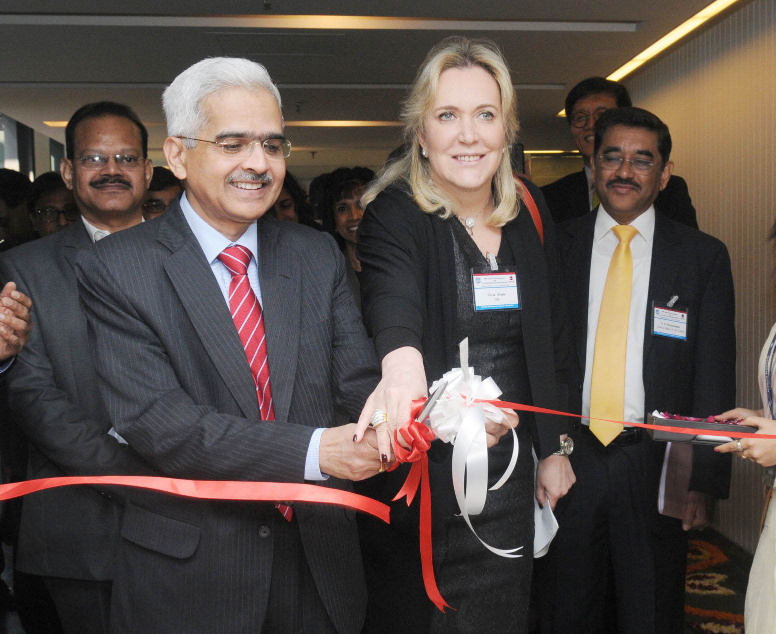 The Secretary, Department of Economic Affairs, Shri Shaktikanta Das inaugurating the International Monetary Fund (IMF)’s South Asia Regional Training and Technical Assistance Centre (SARTTAC), in New Delhi on February 13, 2017.